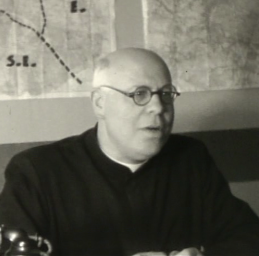 Élie Gautier (1903-1987), Roman catholic priest, founder of the Mission bretonne in Paris